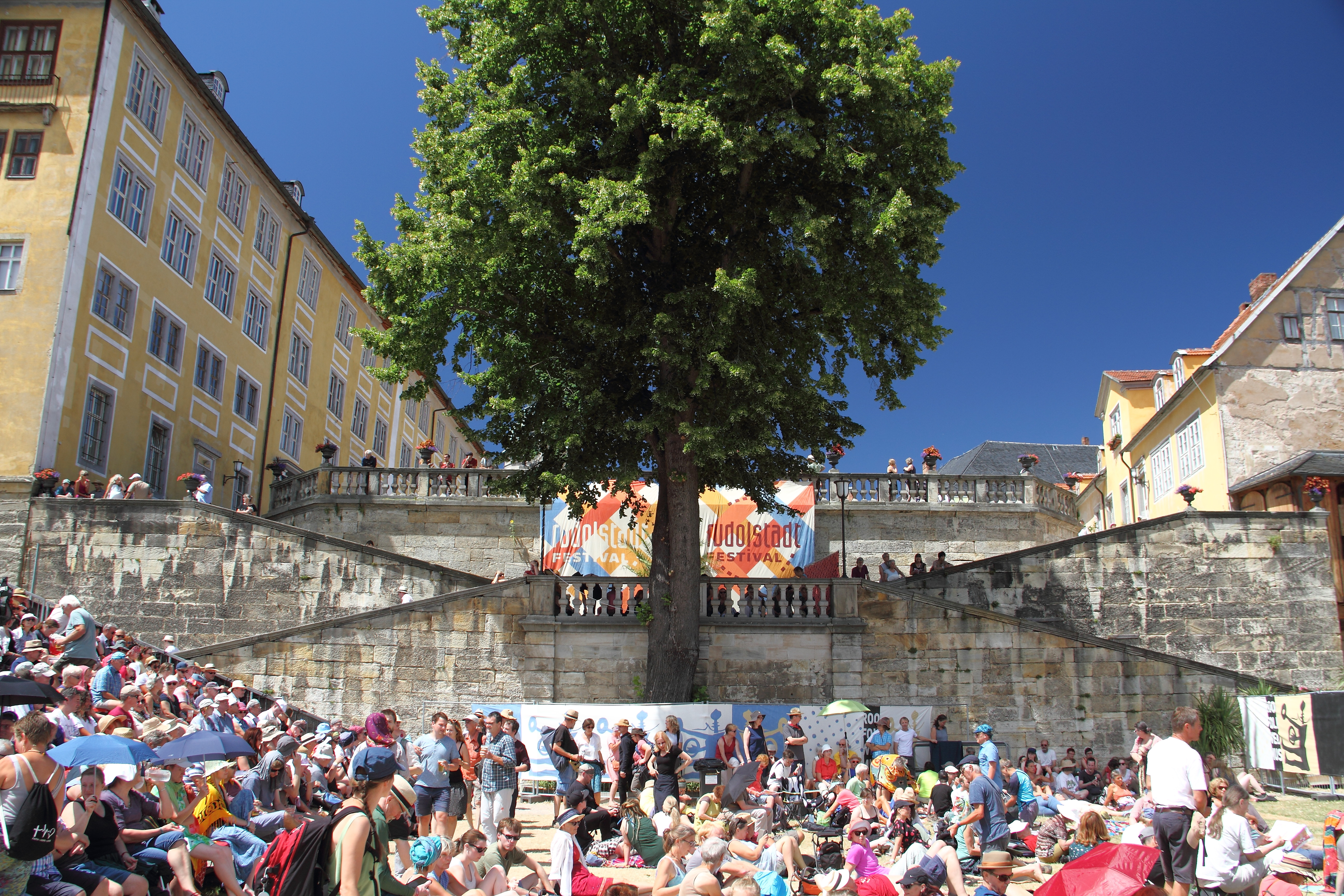 The terrace of the castle Heidecksburg before a concert at Rudolstadt-Festival 2018.